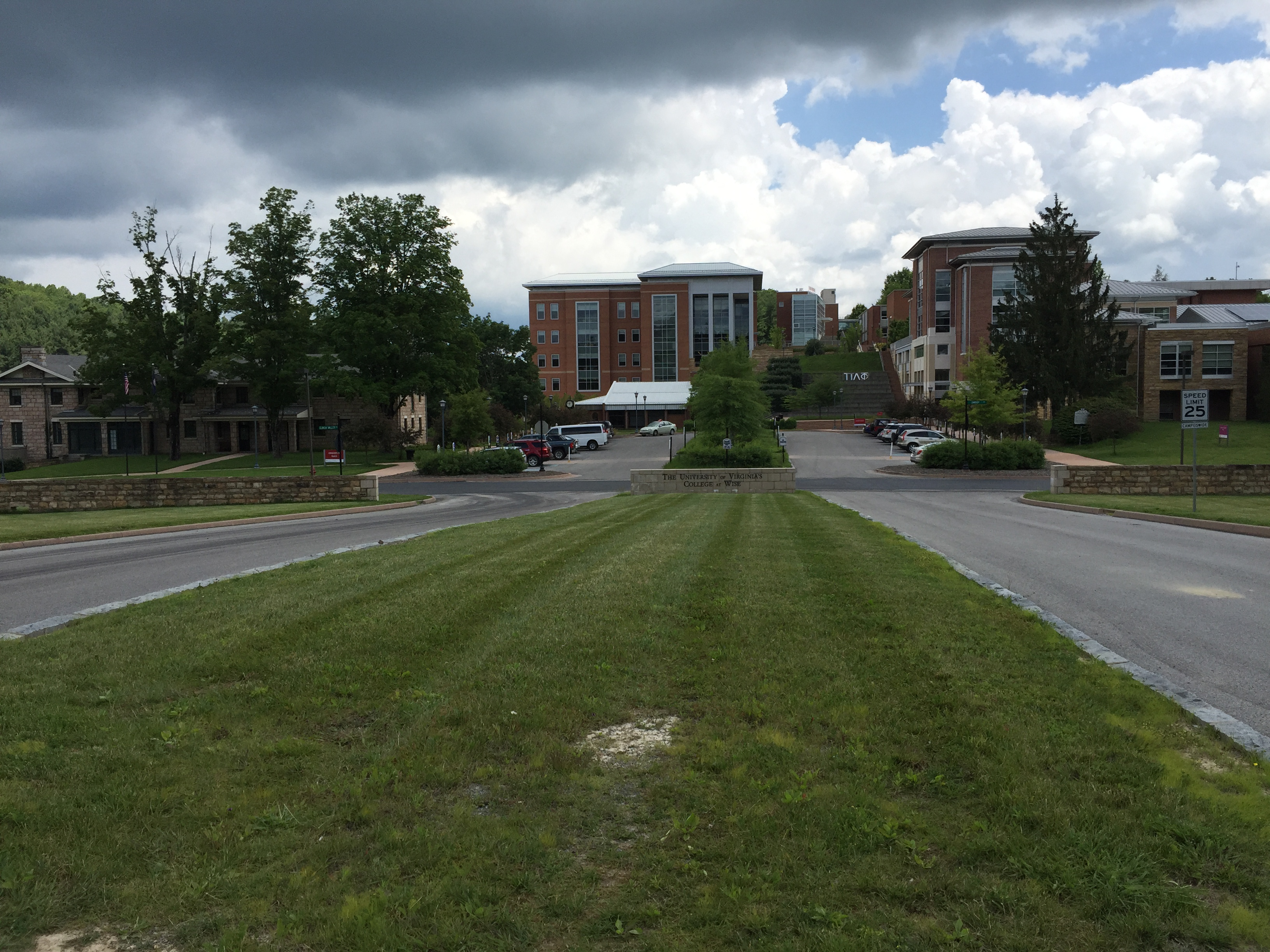 View north along Virginia State Route 382 at Coeburn Mountain Road (Virginia State Secondary Route 646) at the University of Virginia's College at Wise in Wise County, Virginia